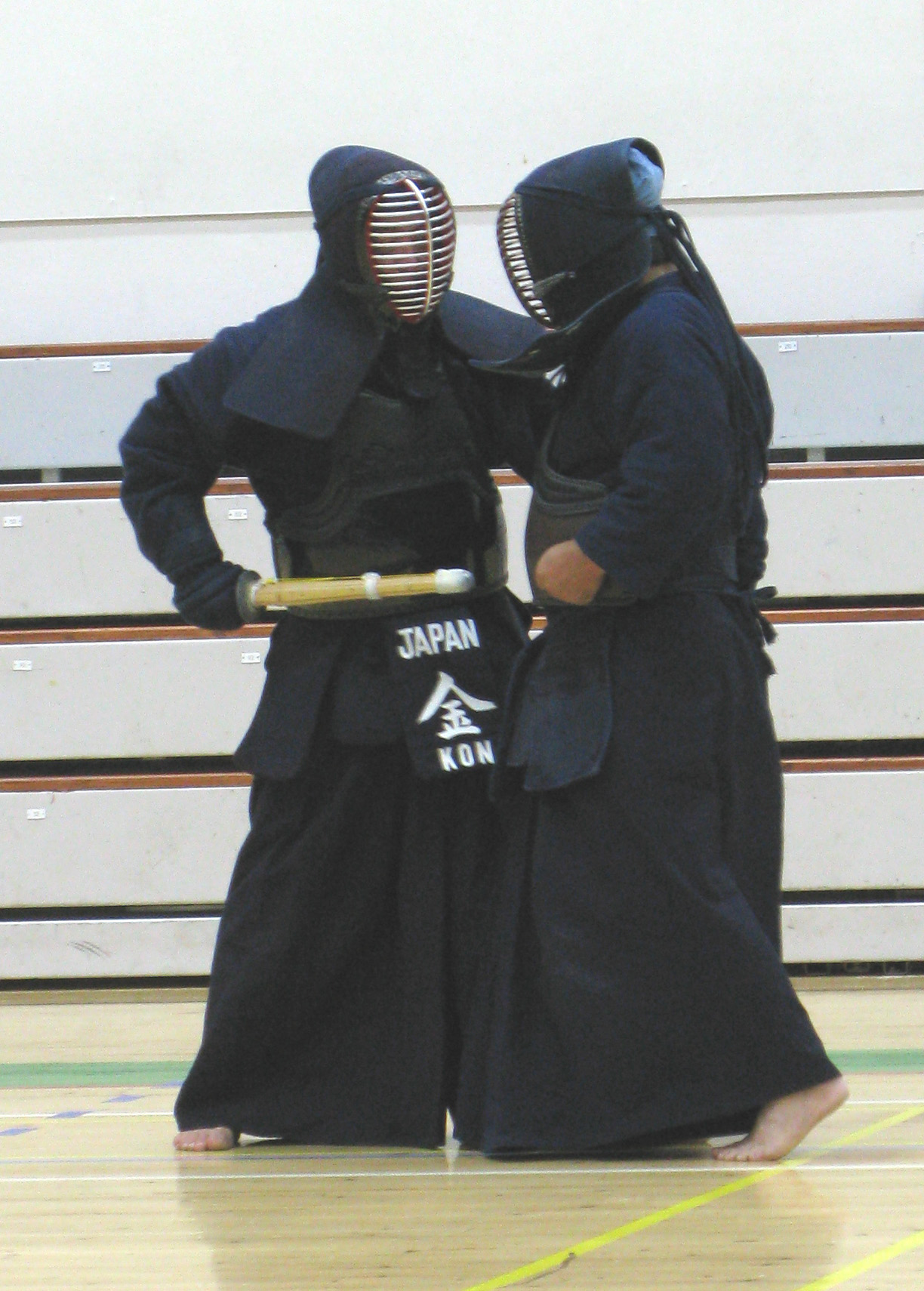 Tankendoka vs. tankendoka. Stab to the chest